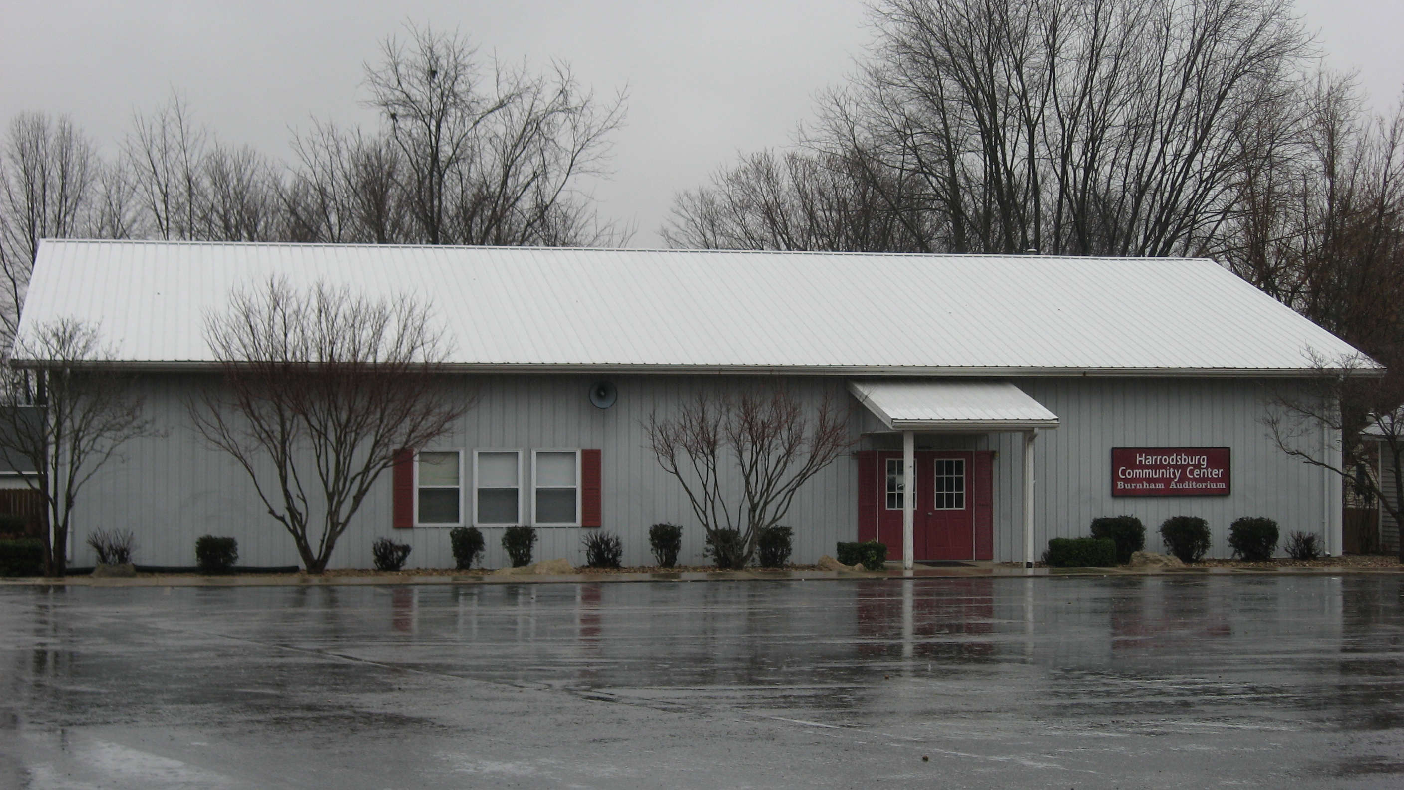 Front of the Harrodsburg Community Center, located at 1002 W. Popcorn Road in Harrodsburg, Indiana, United States. It was built in 1992.